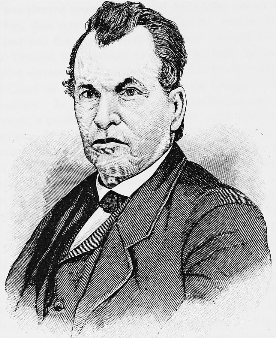 Halsey R. Wing, from "History of Warren County"